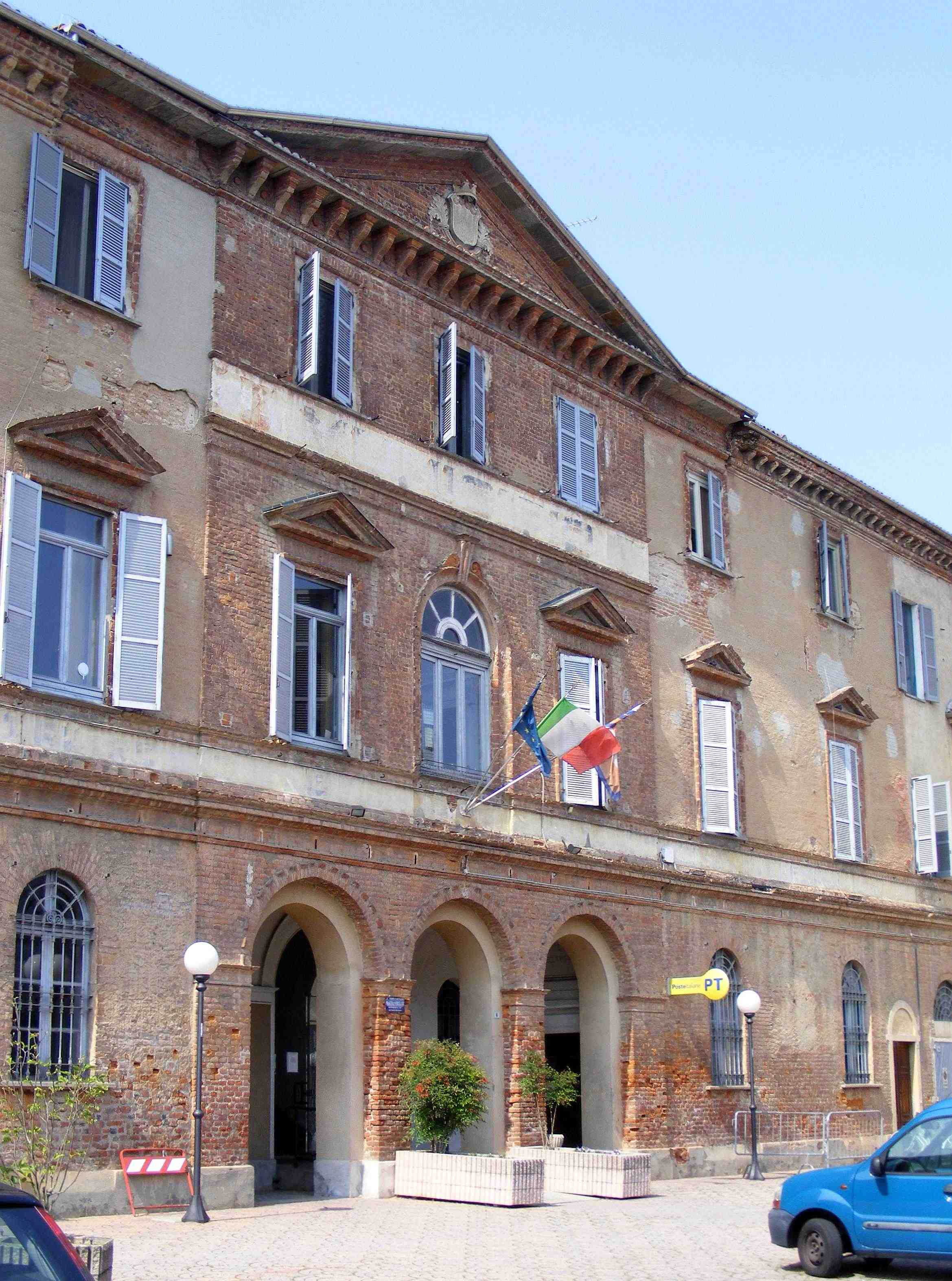 Palazzolo Vercellese (VC): town hall